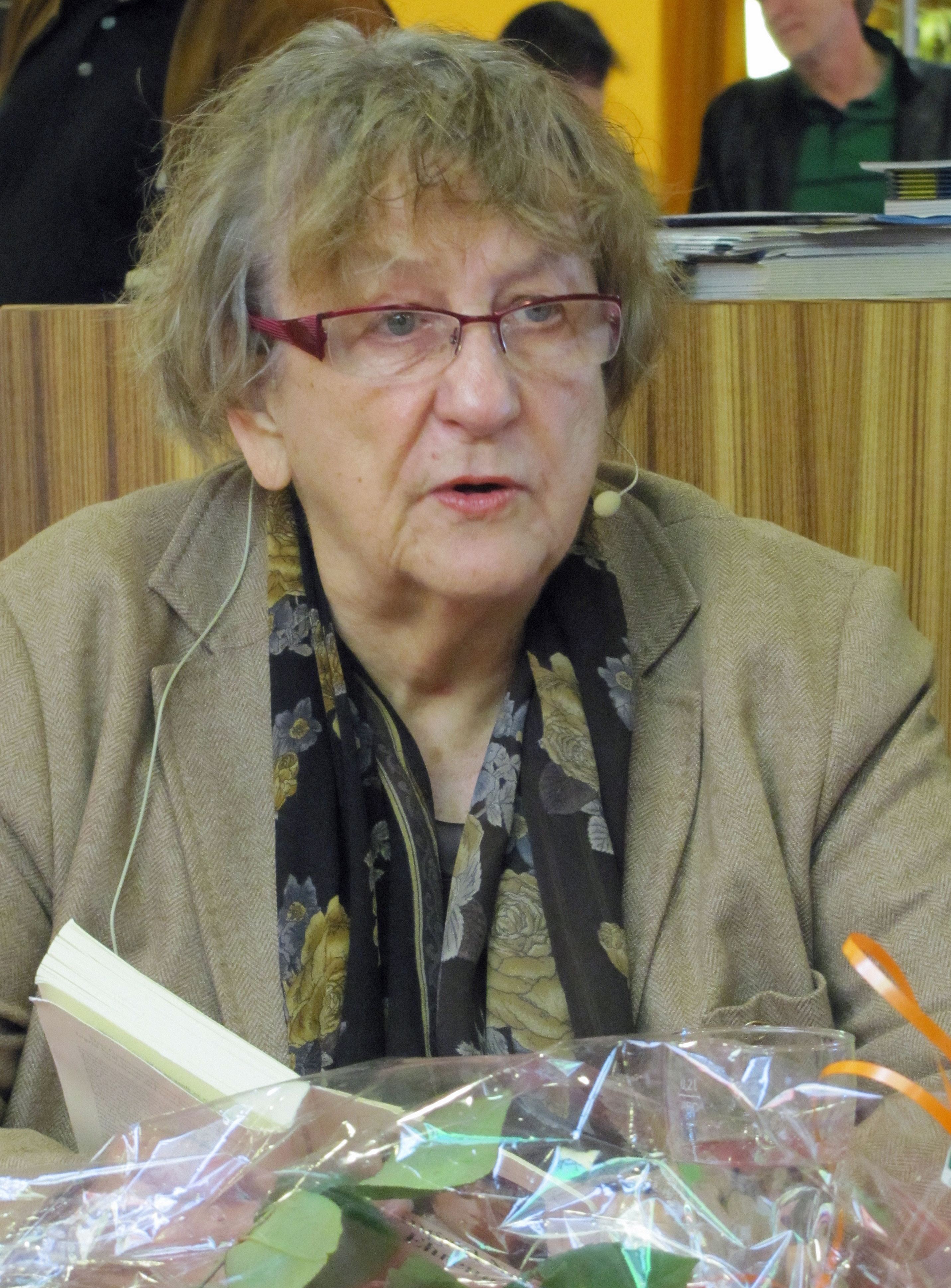 Ingrid Noll, German crime fiction writer, 2010 in Frankfurt am Main, Germany.